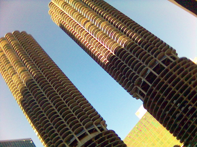 Marina City apartments and offices were completed on the Chicago River. The 60-story round twin towers were designed by Bertrand Goldberg.